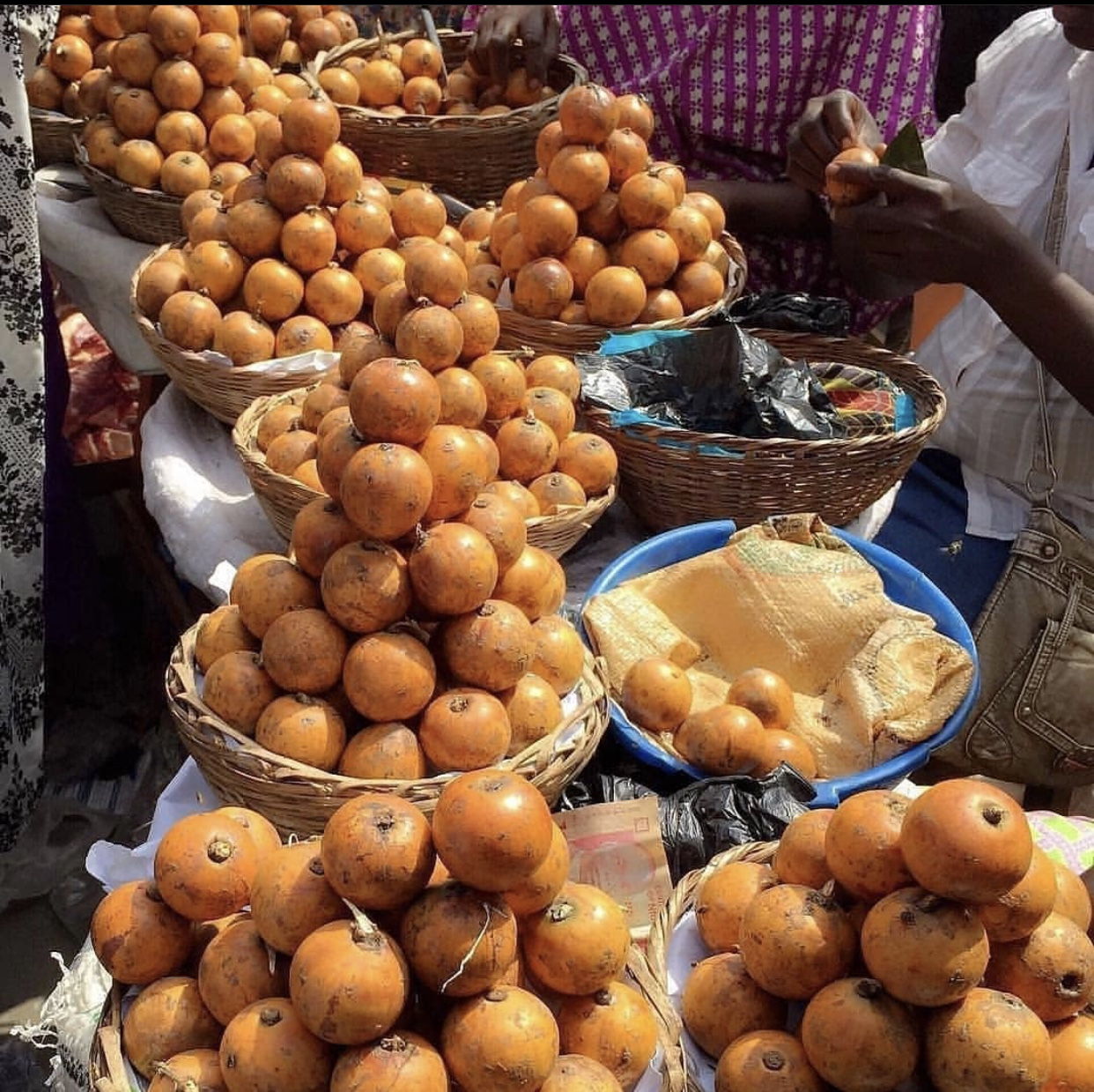 African Star Apple fruit sold in bowls at a Ghanaian market